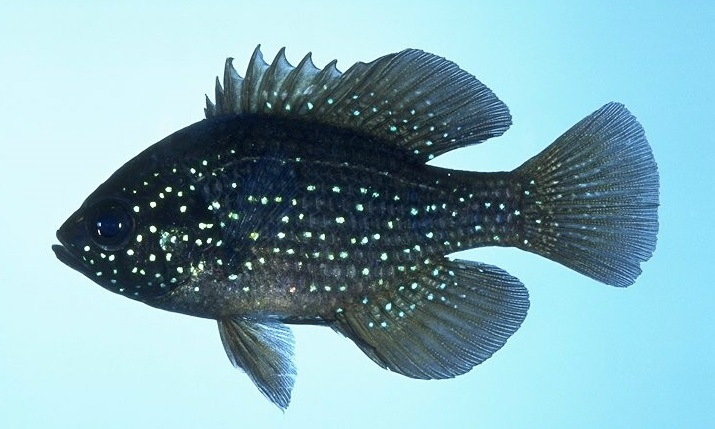 Blue-spotted sunfish (Enneacanthus gloriosus)